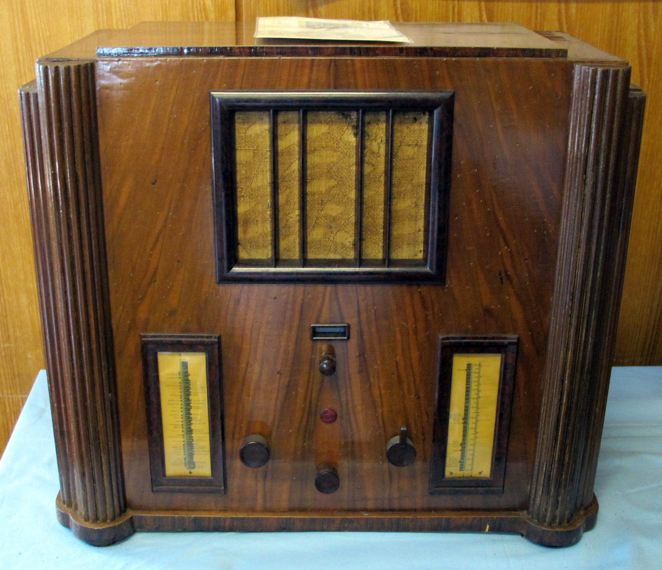 Antique radios amateurs exhibition (Florence 2014) - Radioricevitore del 1936, con circuito supereterodina con 5 valvole (WE21 - AK1 - WE25 - WE30 - WE51), gamme d'onda OC OM OL.